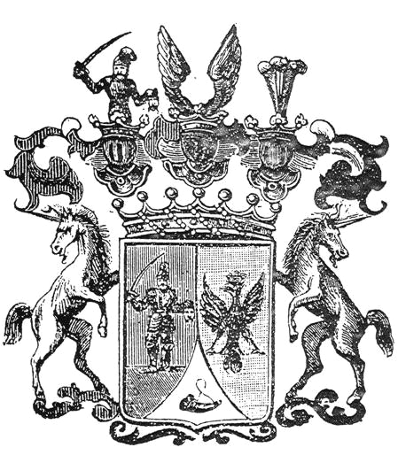 Coat of arms of the Podmanitzky family.